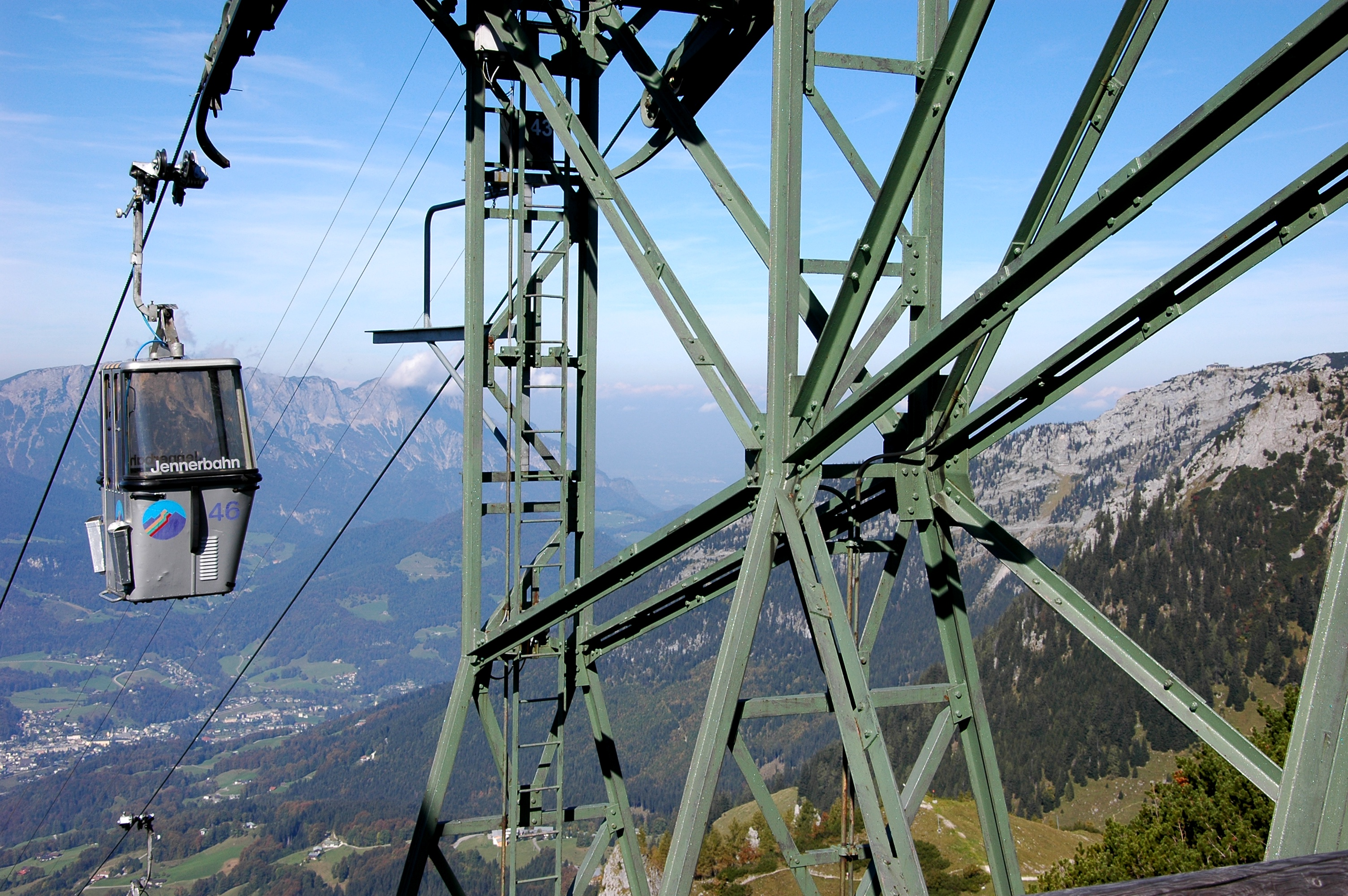 A cabin of the Jenner cableway direct before the summit station. At the background (right side) you can see the Kehlsteinhaus (Eagle's Nest)